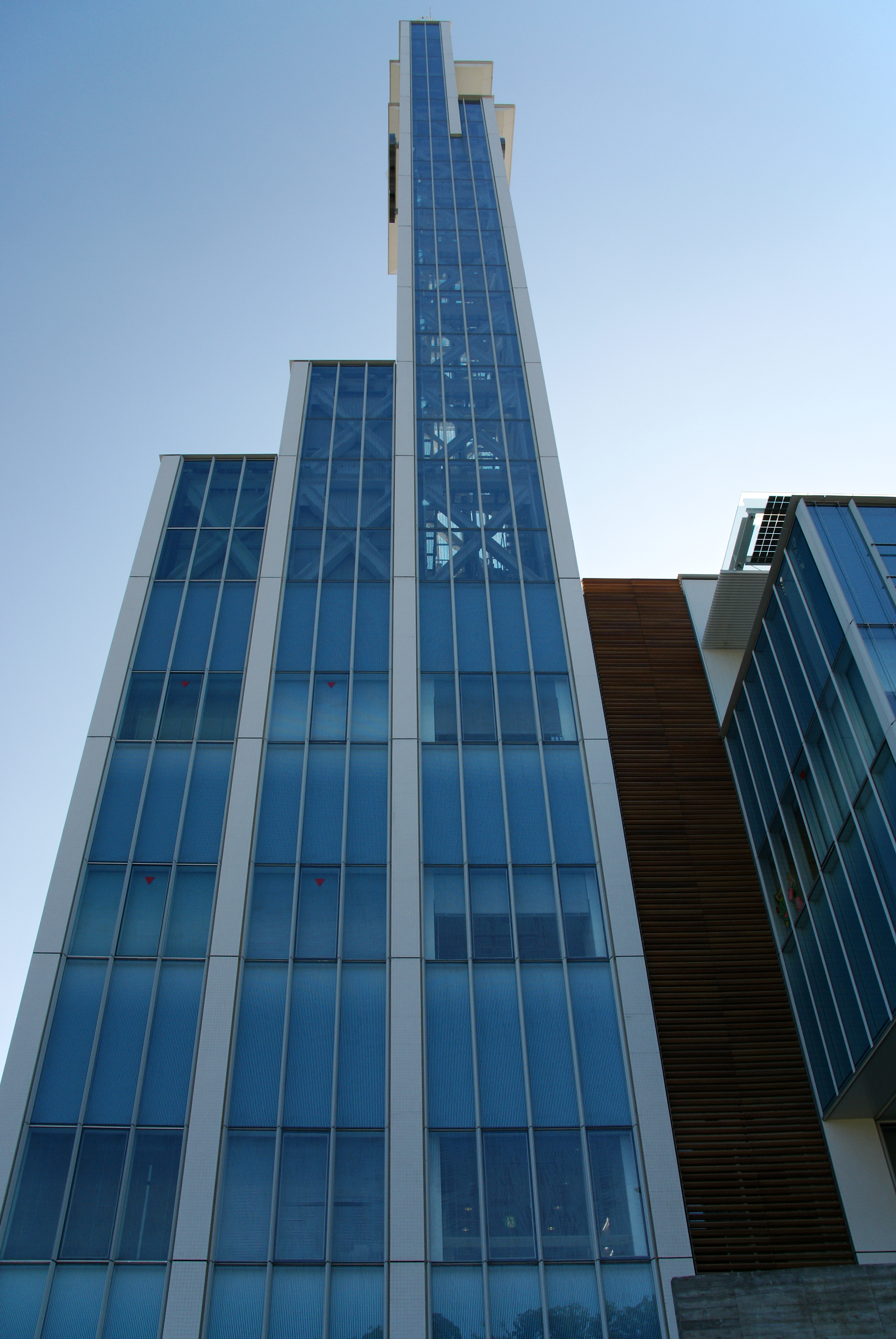 NHK Tokushima broadcast station in Tokushima, Tokushima prefecture, Japan